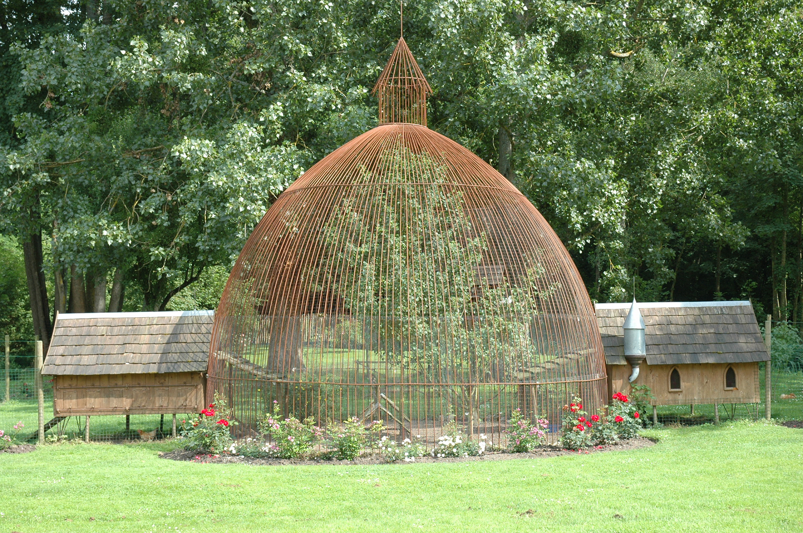 Château de Fougères-sur-Bièvre, aviary in the garden